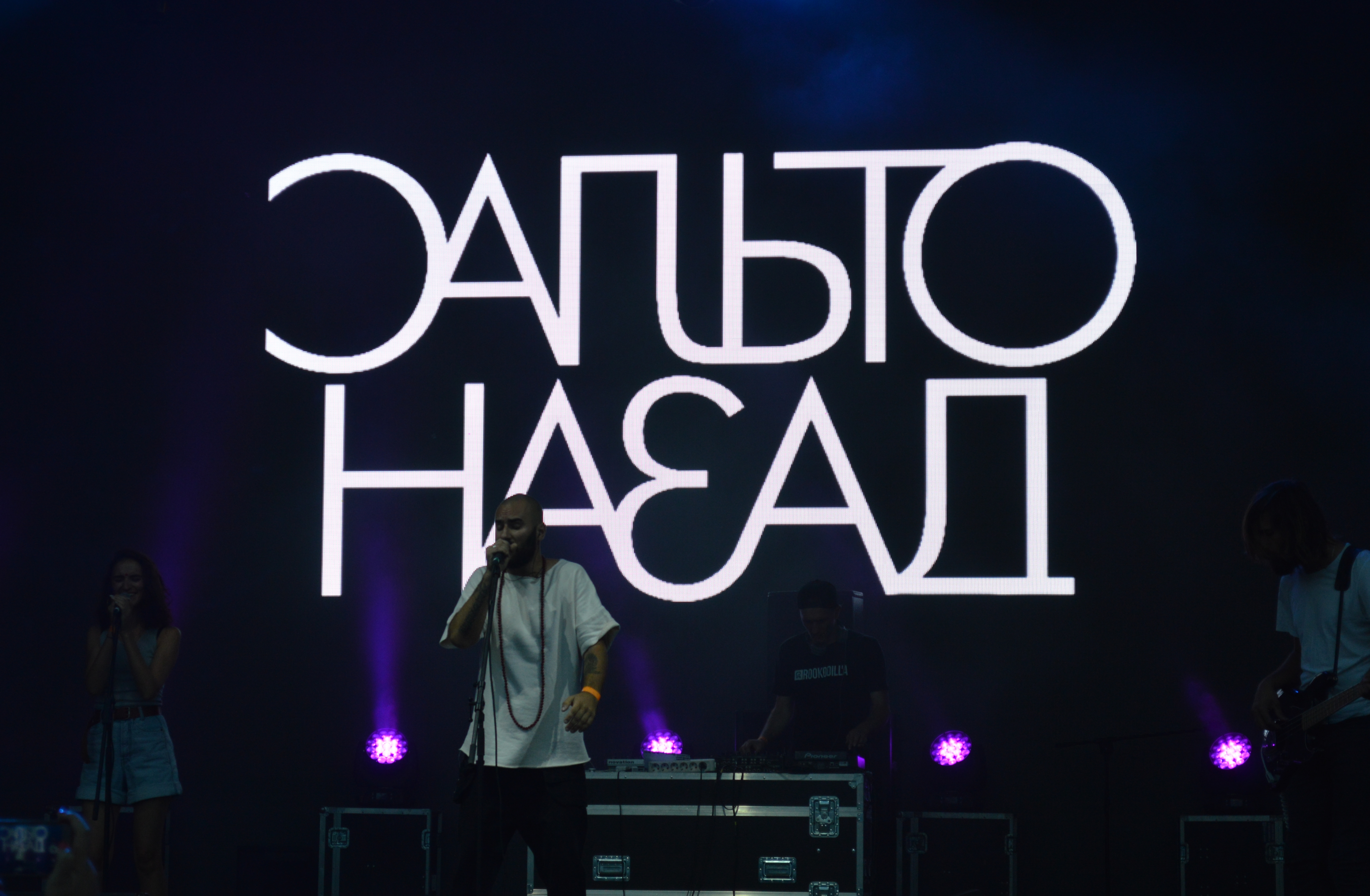 Ukrainian band Salto Nazad at the 2018 MRPL City Festival.